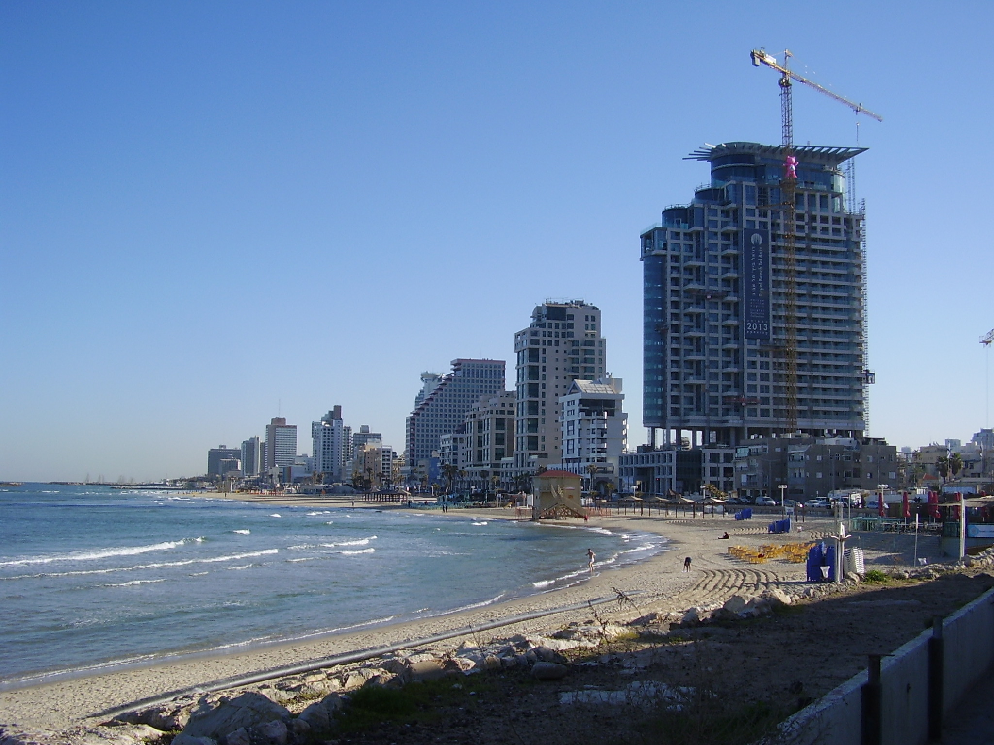 tel aviv beach